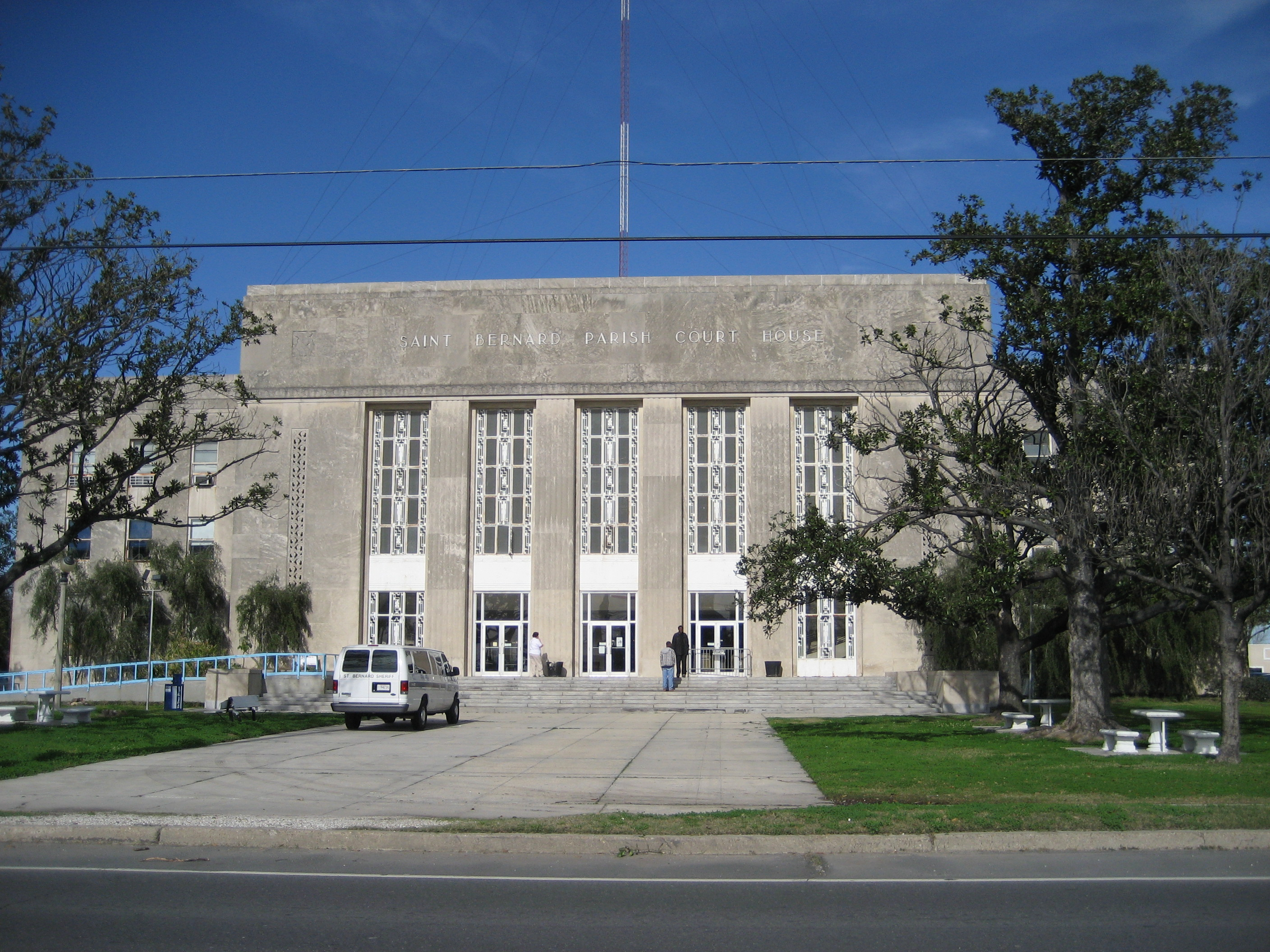 St. Bernard Parish Courthouse and government seat, Chalmette, Louisiana. A number of people rode out Hurricane Katrina here and more took refuge during subsequent great flood on the 3rd floor.